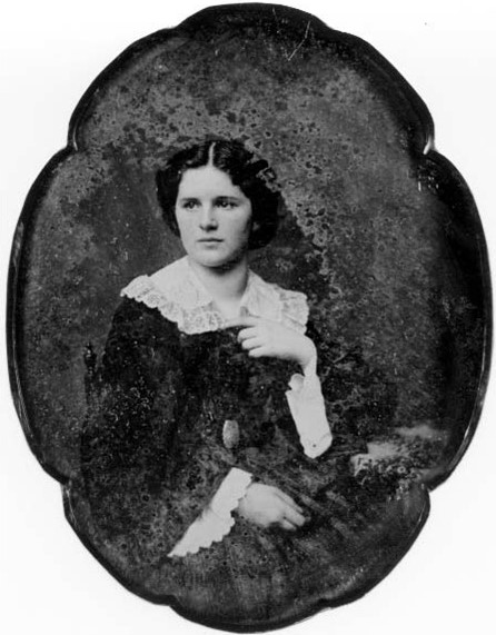 Photograph of Mary Frances "Fanny" McCullough. In December 1862 President Abraham Lincoln wrote her a letter of condolence on the recent death of her father during the American Civil War.